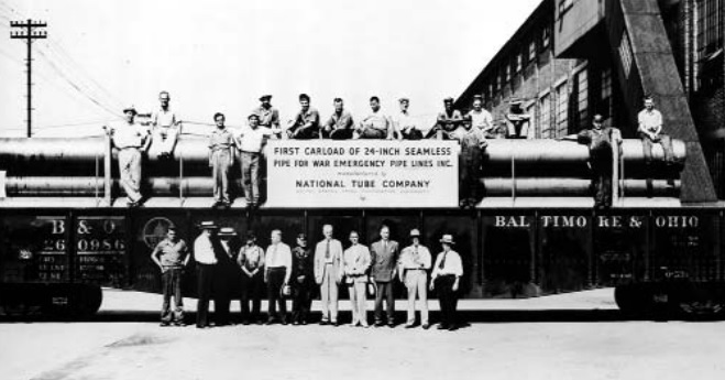 First carload of 24-inch seamless pipe for the Big Inch (July 17, 1942). Petroleum Administration for War. NARA 253-CD-178